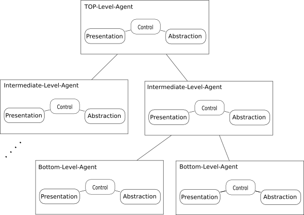 Presentation-Abstraction-Control diagram